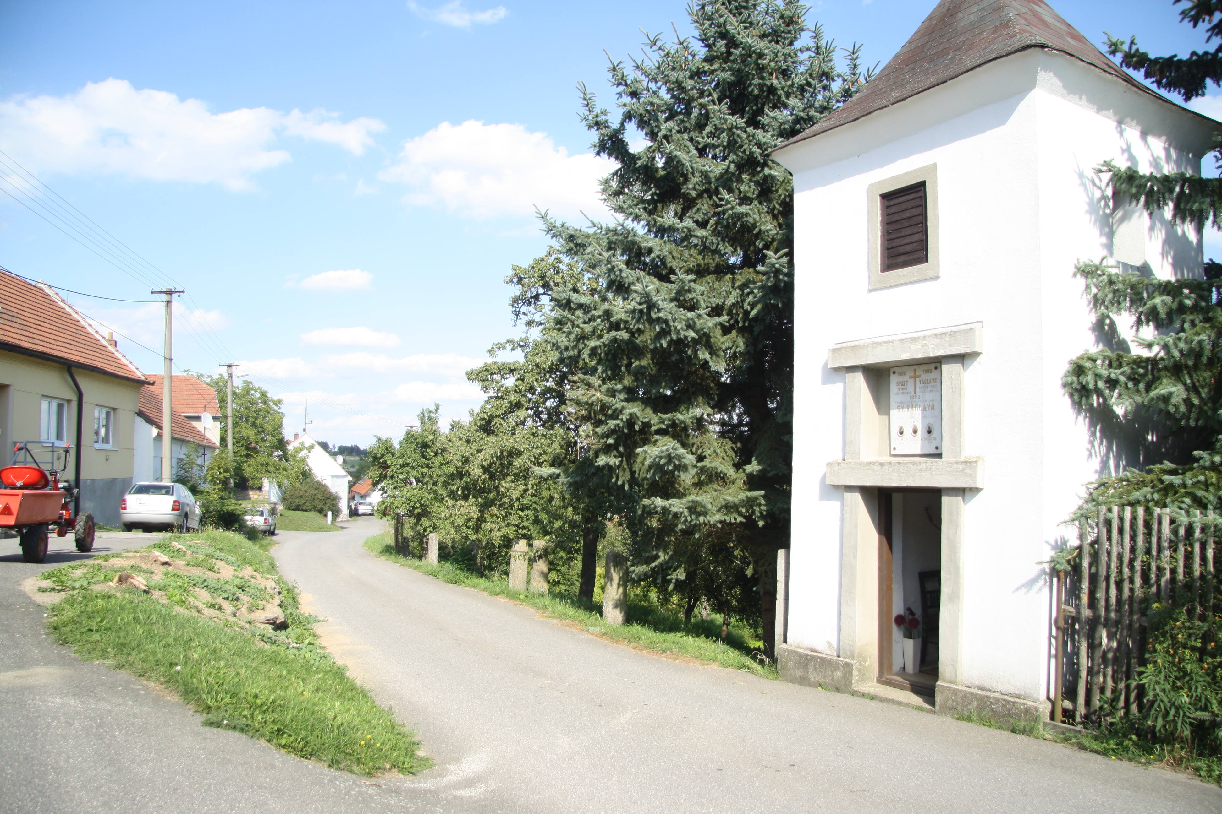 Center with chapel in Nové Sady, Žďár nad Sázavou District.